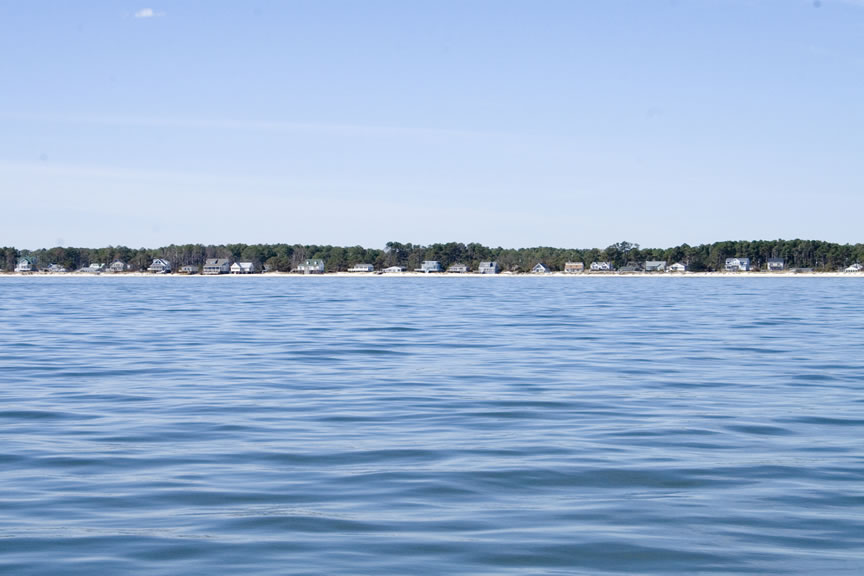 Mathews, VA